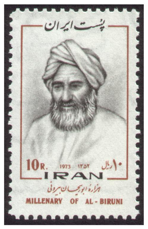 Biruni on a 1973 Iranian post stamp commemorating his one thousandth anniversary Abū-Rayhān Bīrūnī, Iranian scientist and physicist, an anthropologist and psychologist, an astronomer, a chemist, a critic of alchemy and astrology, an encyclopedist and historian, a geographer and traveller, a geodesist and geologist, a mathematician, a pharmacist and physician, an Islamic philosopher and theologian, and a scholar and teacher.